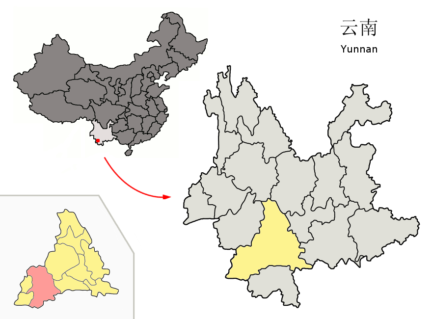 Location of Lancang County (pink) and Pu'er Prefecture (yellow) within Yunnan province of China Map drawn in september 2007 using various sources, mainly : Yunnan province administrative regions GIS data: 1:1M, County level, 1990 Yunnan Counties map from